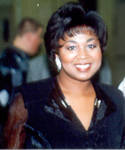 Photograph of Marjorie Vincent, a former Miss America winner